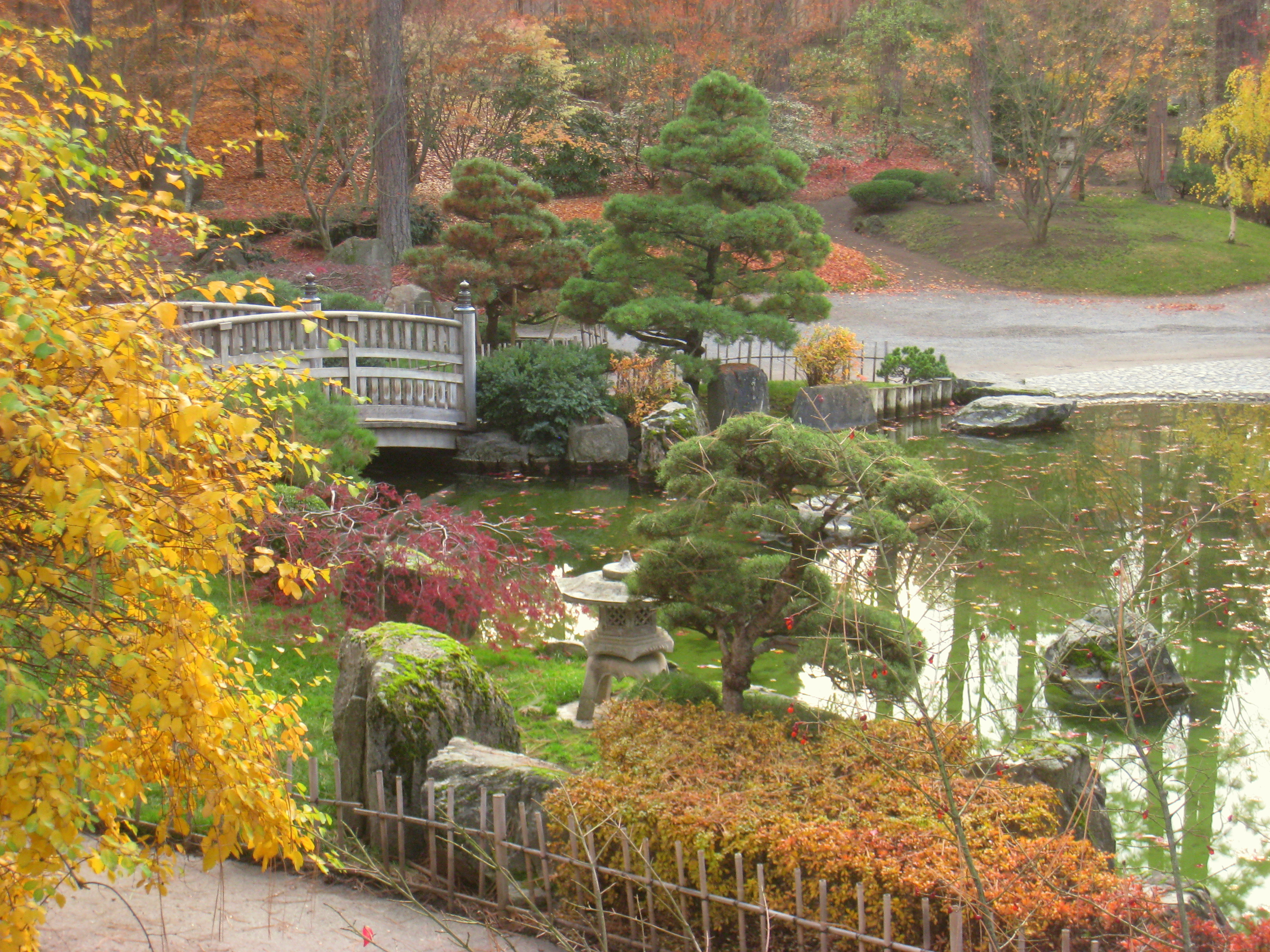 Nishinomiya Japanese Garden, Manito Park, Spokane, Washington, USA.